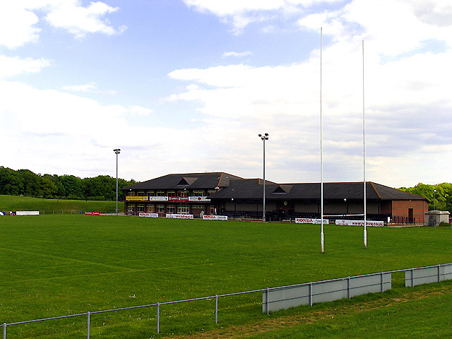 Newbury Rugby Football Club